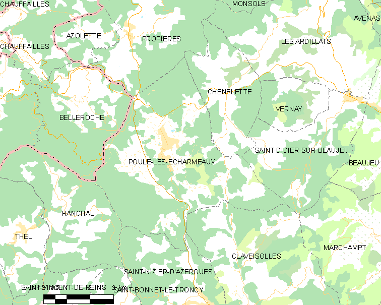 Map of French municipality